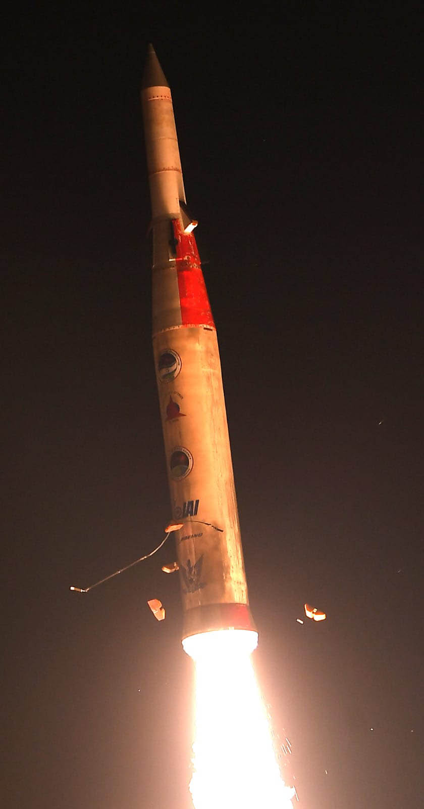 The Israel Missile Defense Organization (IMDO) of the Directorate of Defense Research and Development (DDR&D) of Israel's Ministry of Defense (IMOD), together with the Missile Defense Agency (MDA), successfully completed a flight test of the Arrow-2 interceptor on August 12, 2020. Arrow Weapon System Test-18a (AST-18a) demonstrated system processes through live intercept of a Medium Range Ballistic Missile (MRBM) target. This test was conducted at a test range in central Israel and over the Mediterranean Sea. (Israel Ministry of Defense photographs)